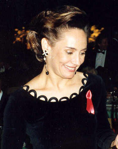 Laurie Metcalf at the 44th Emmy Awards, 1992